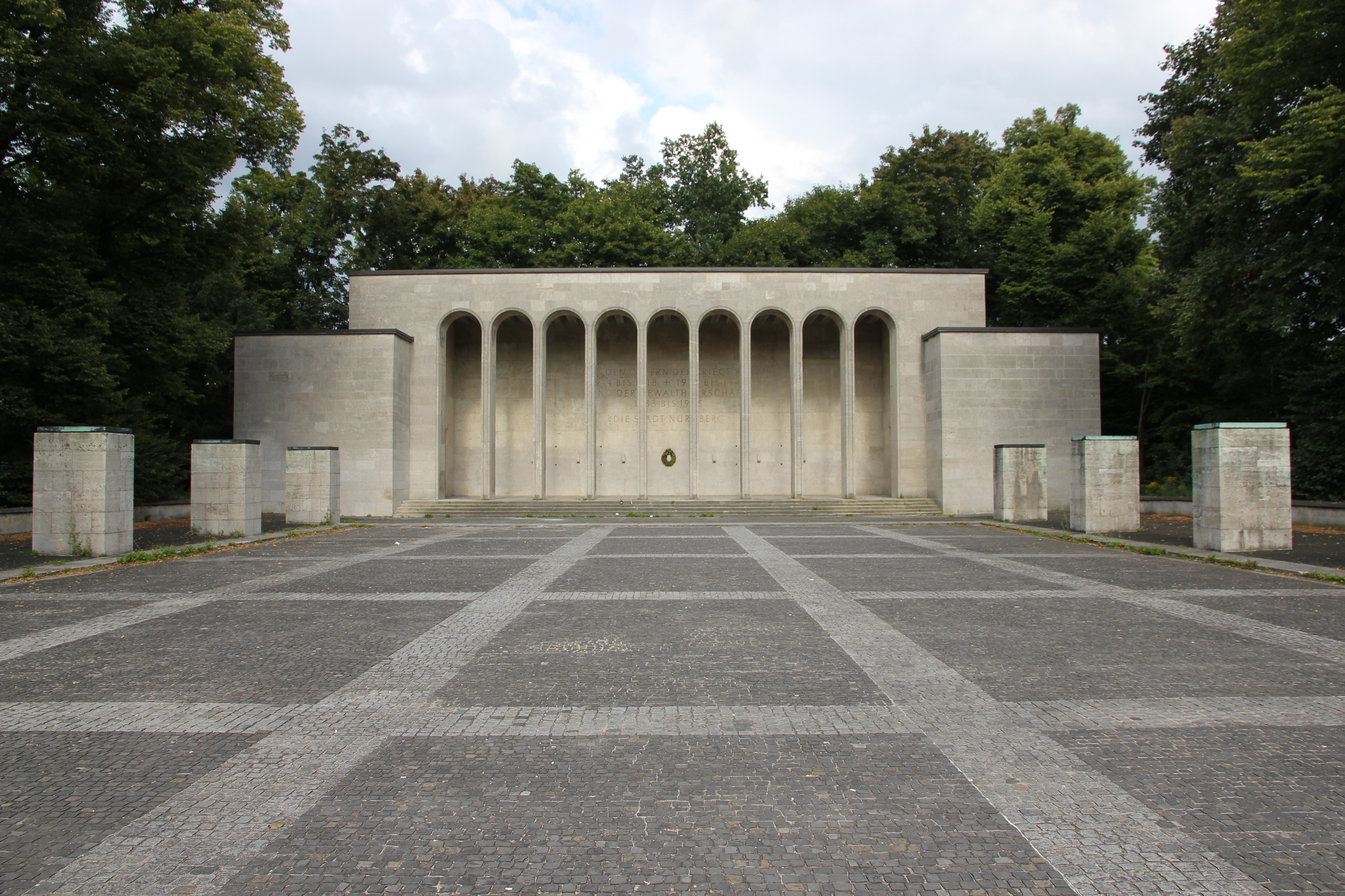 Ehrenhalle at the Luitpoldhain (former part of the Nazi party rally grounds) in Nuremberg